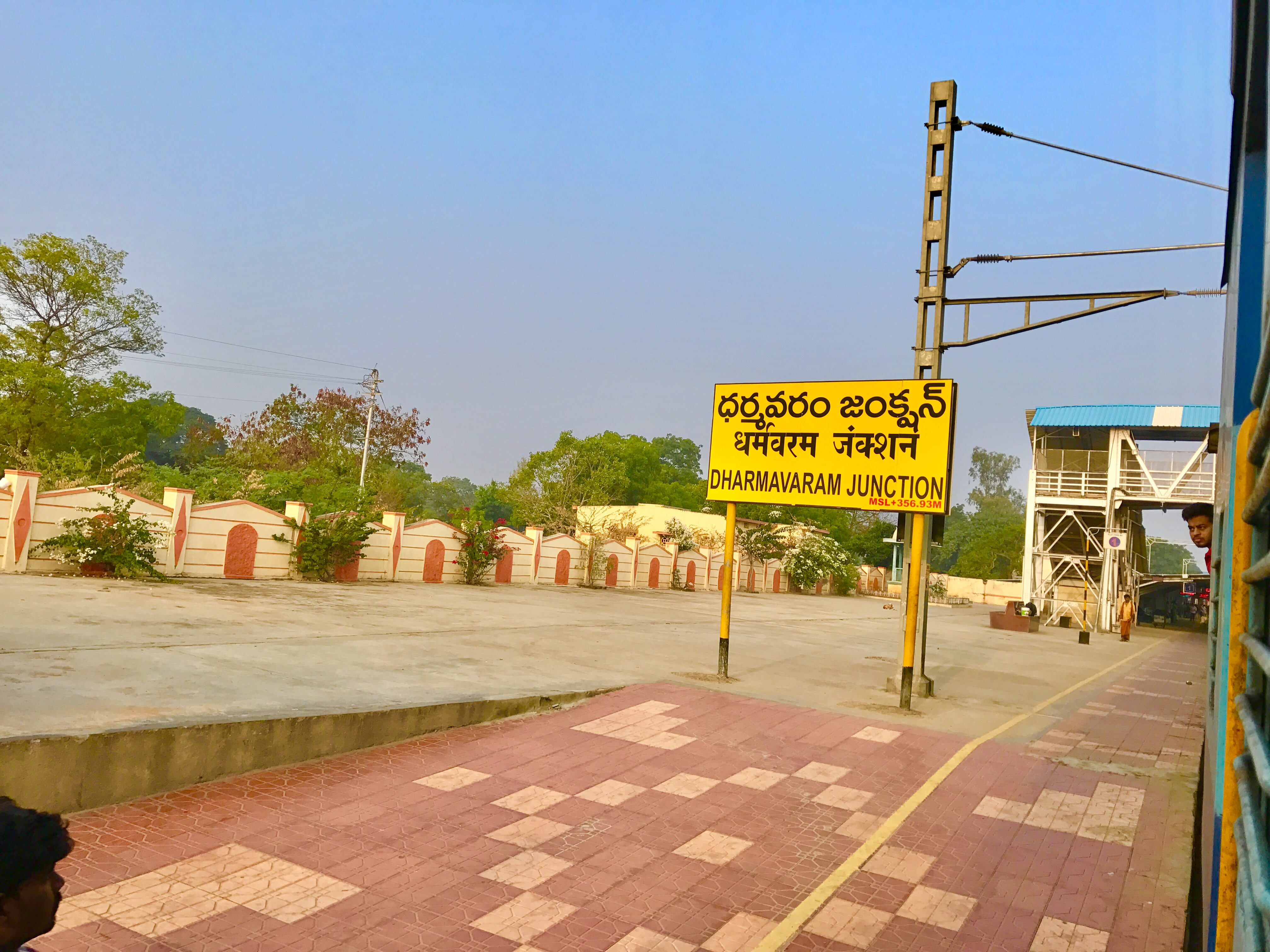 Dharmavaram Junction board